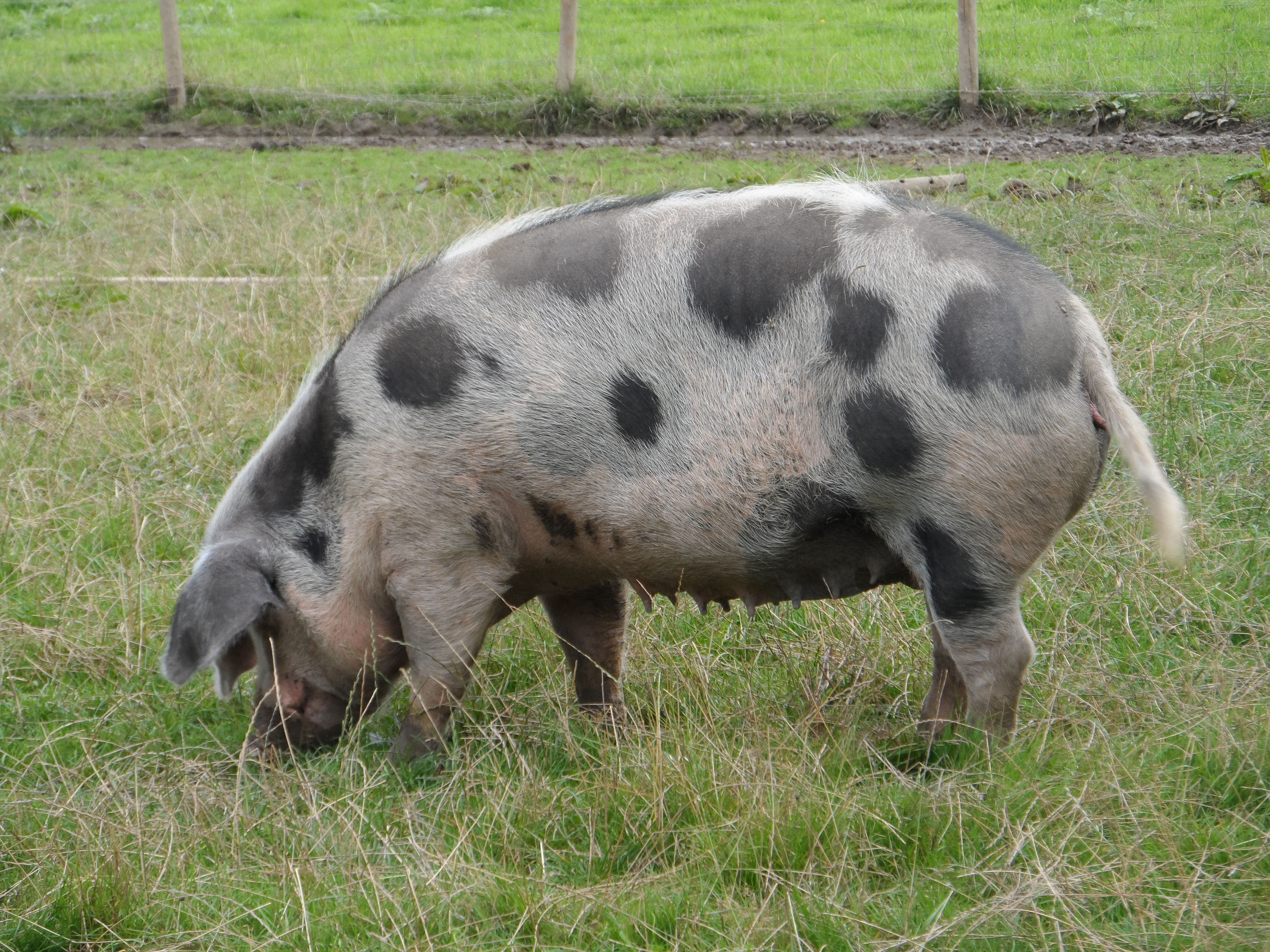 Pig, Kilcullen